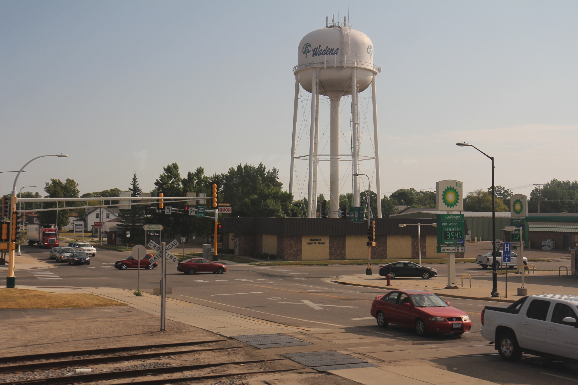 Downtown Wadena, Minnesota at the intersections of US10 and US71.